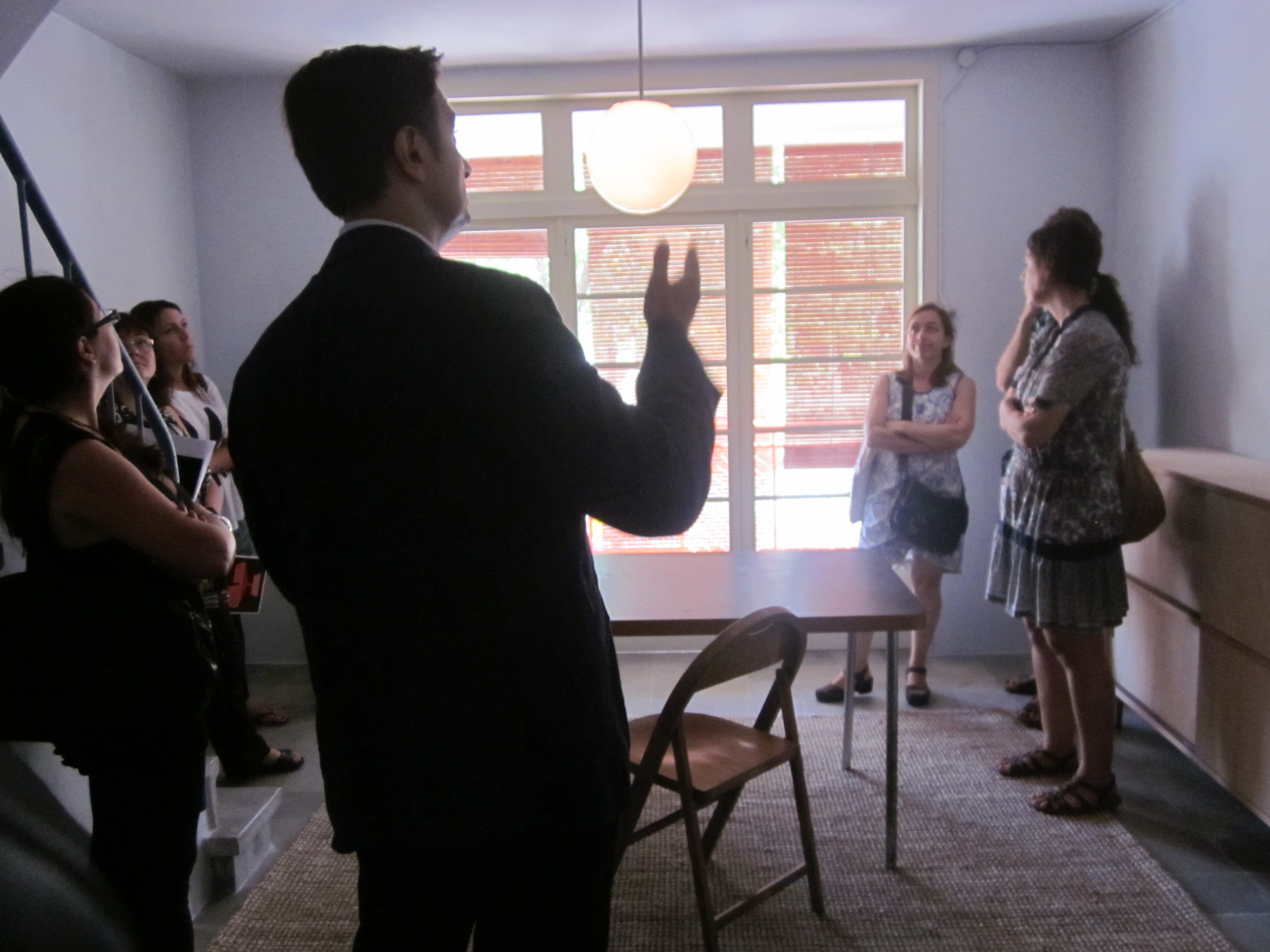 A visit inside the Casa Bloc Apartment Museum